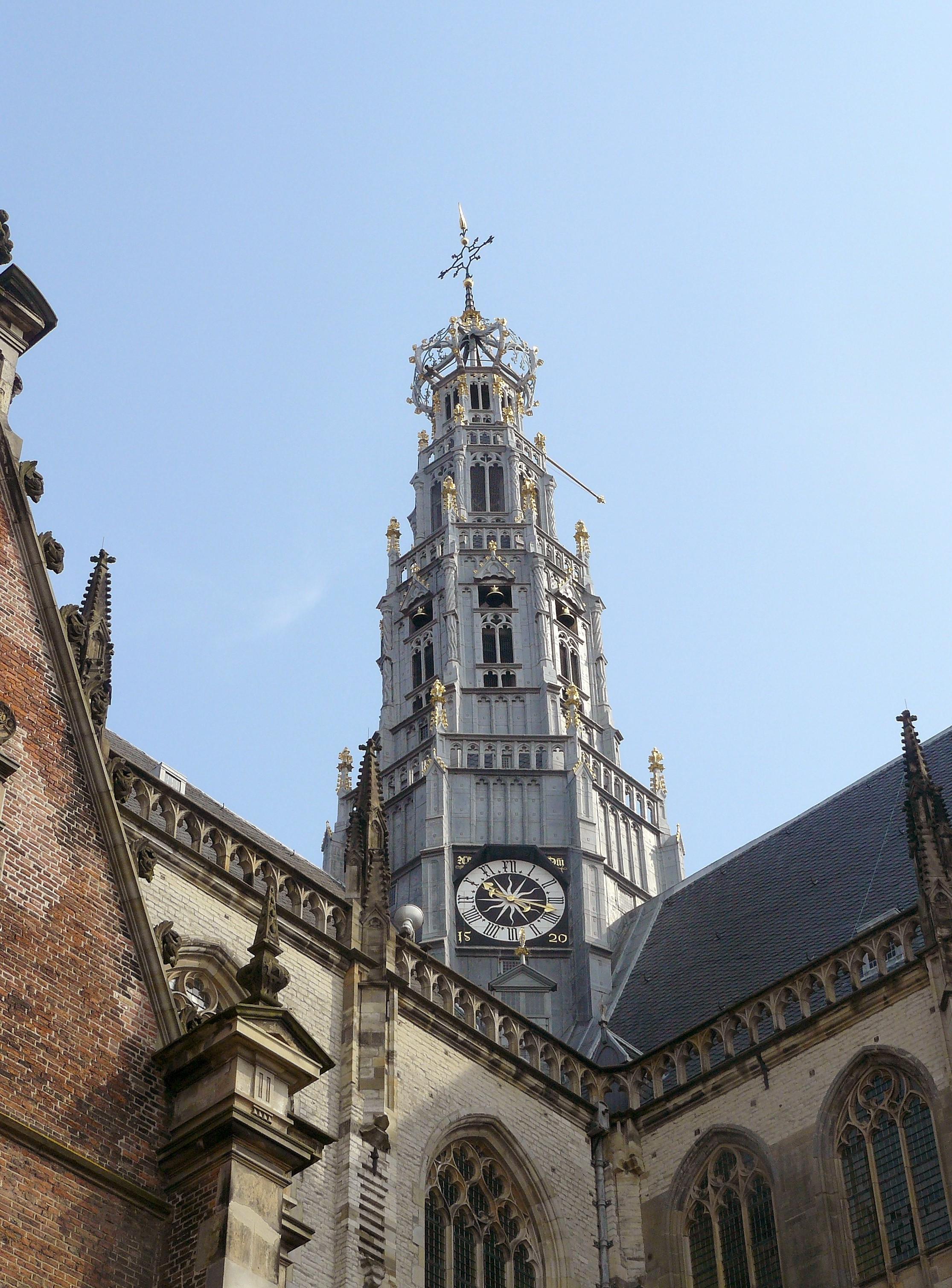 Steeple of the St. Bavochurch in Haarlem.